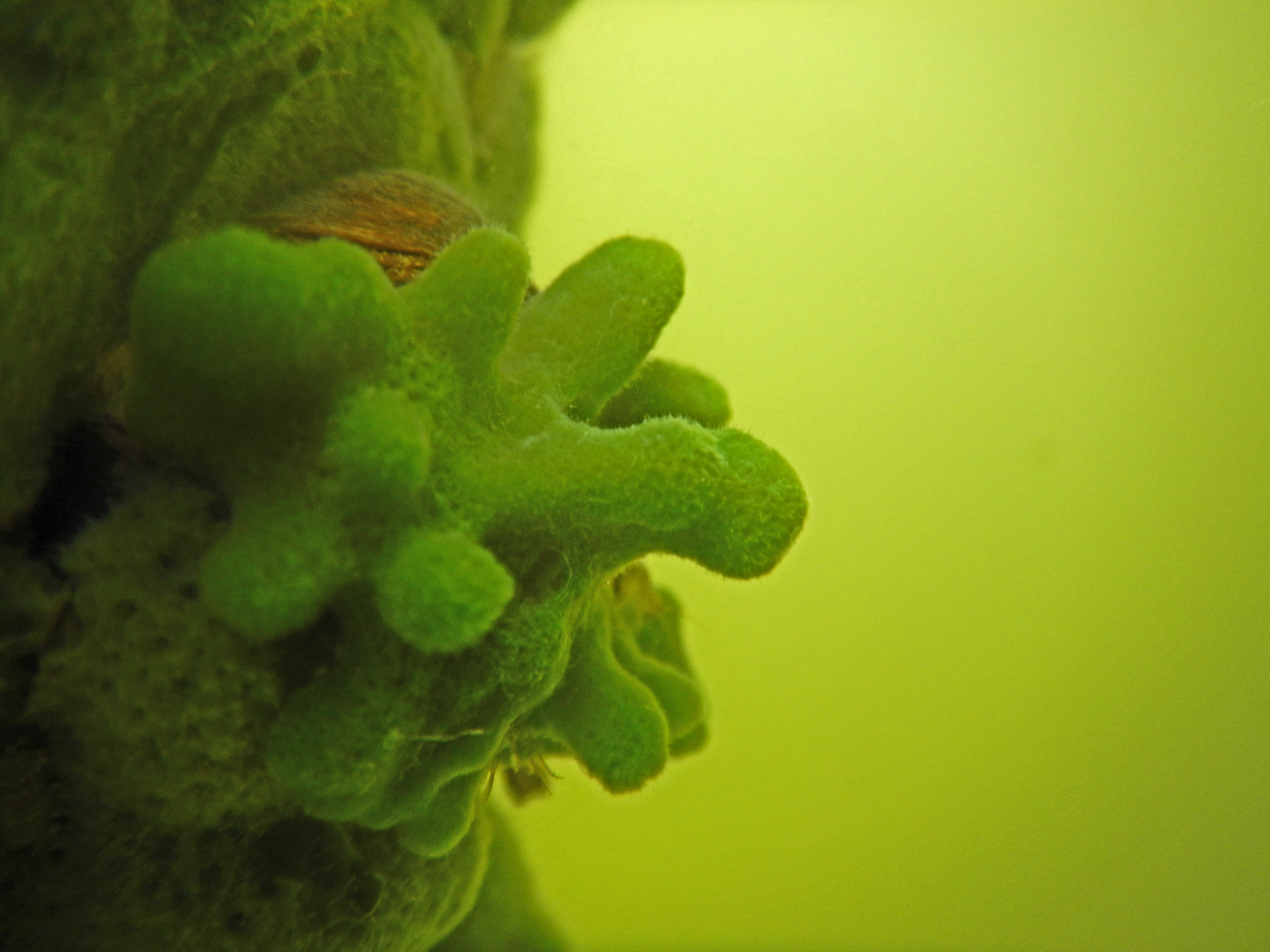 Sponge freshwater Spongilla lacustris under a floating plastic buoy on the Upper Deûle in Lille on a free merchant traffic area; the green color is due to a symbiotic association with a green alga